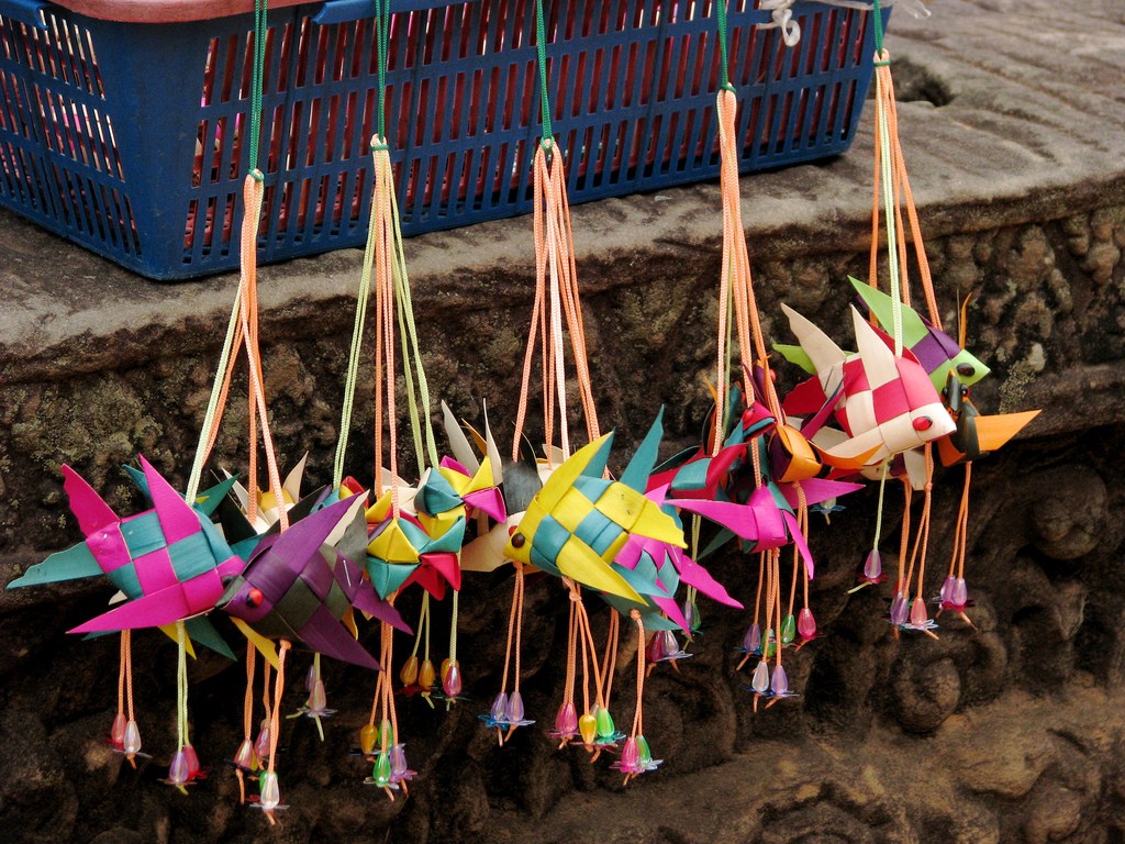 Ornaments made of folded coloured paper. Sold to tourists in Cambodia by children and elderly women.